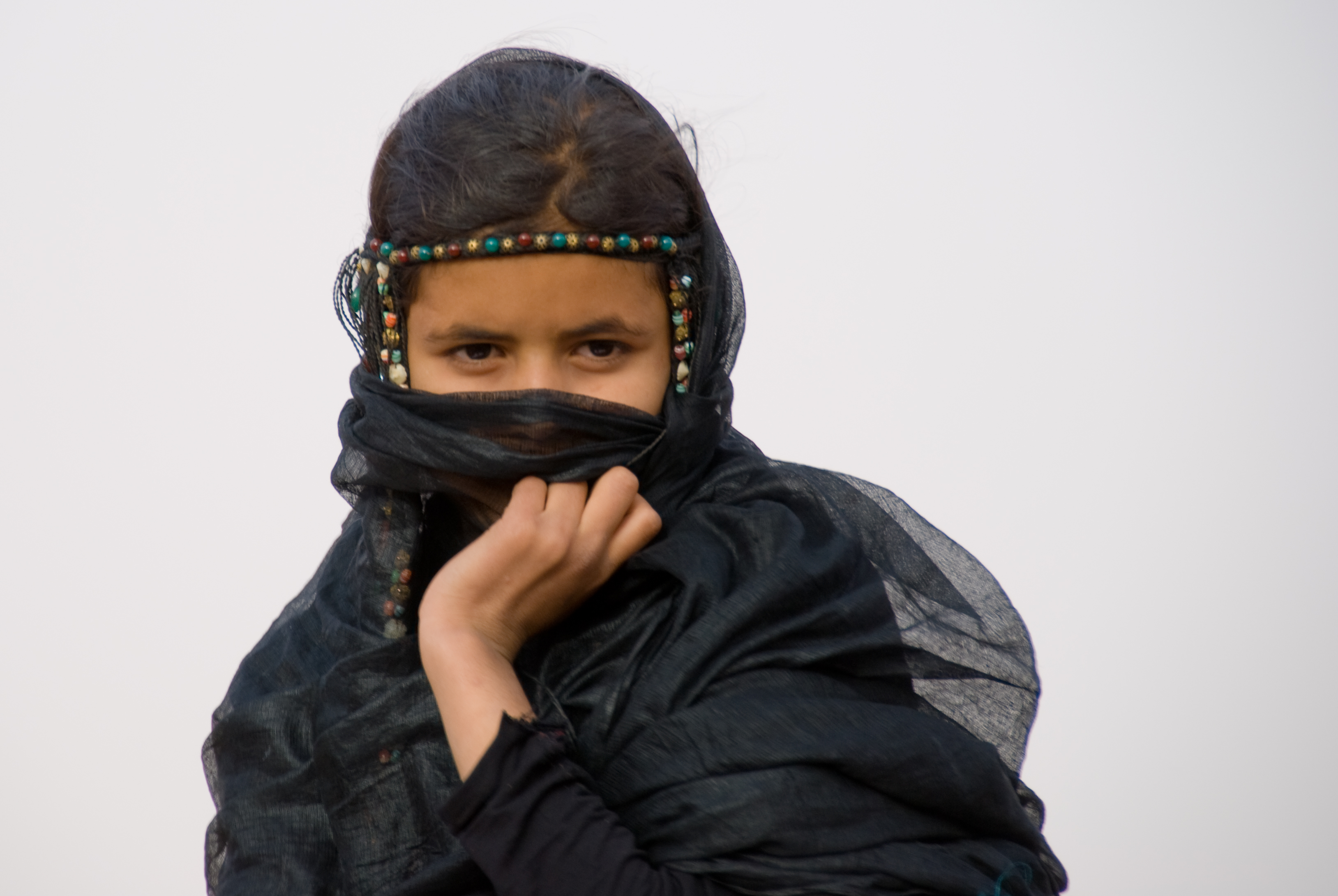 The whole set from Morocco